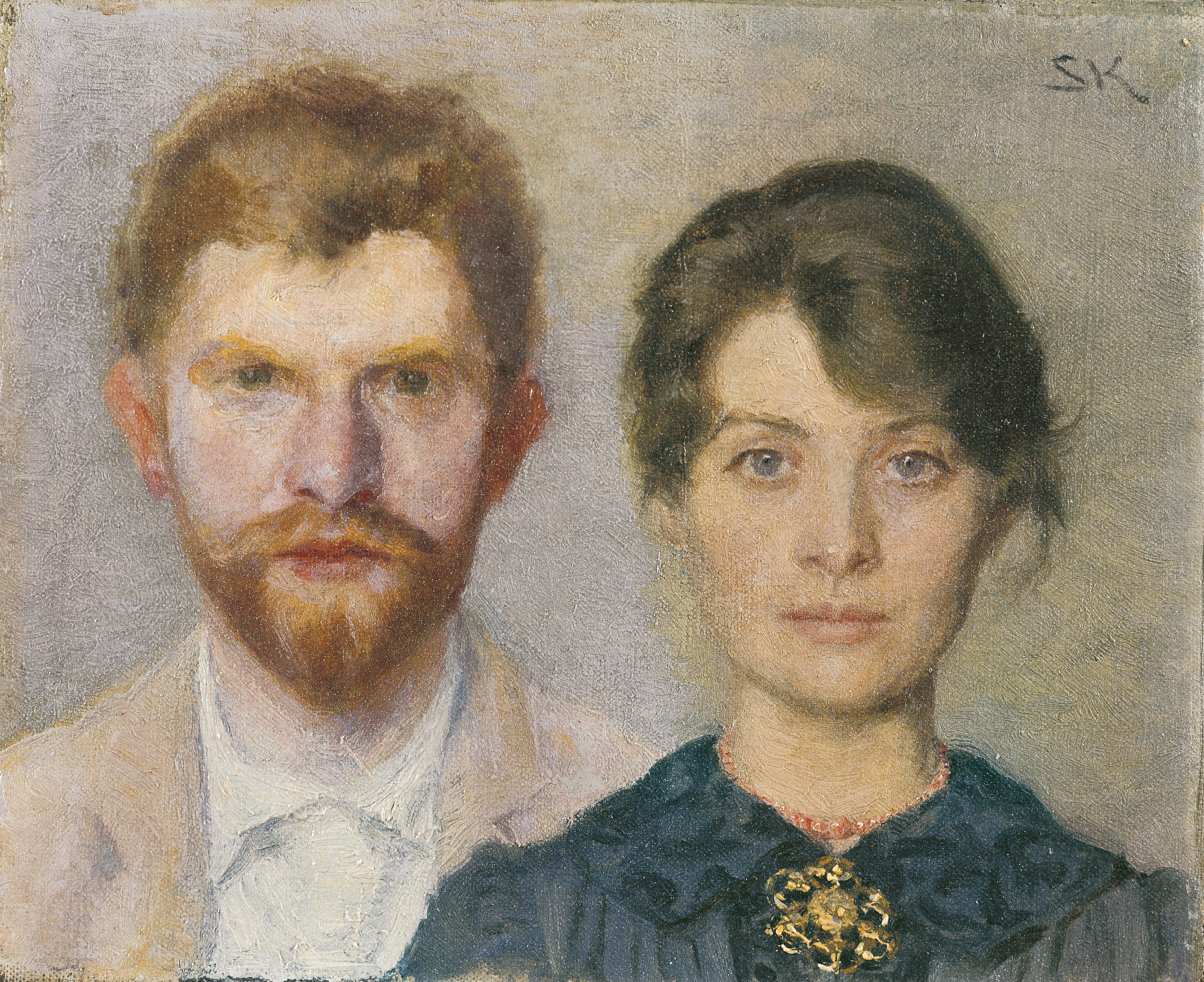 The couple have portrayed one another